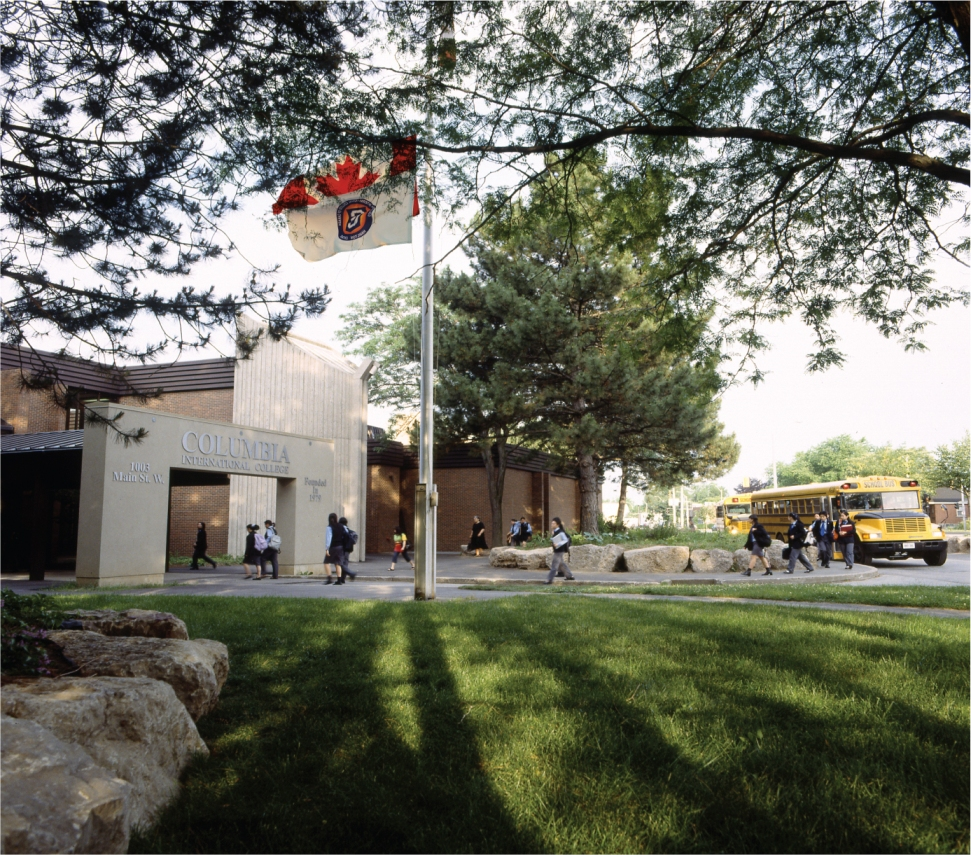 cic front